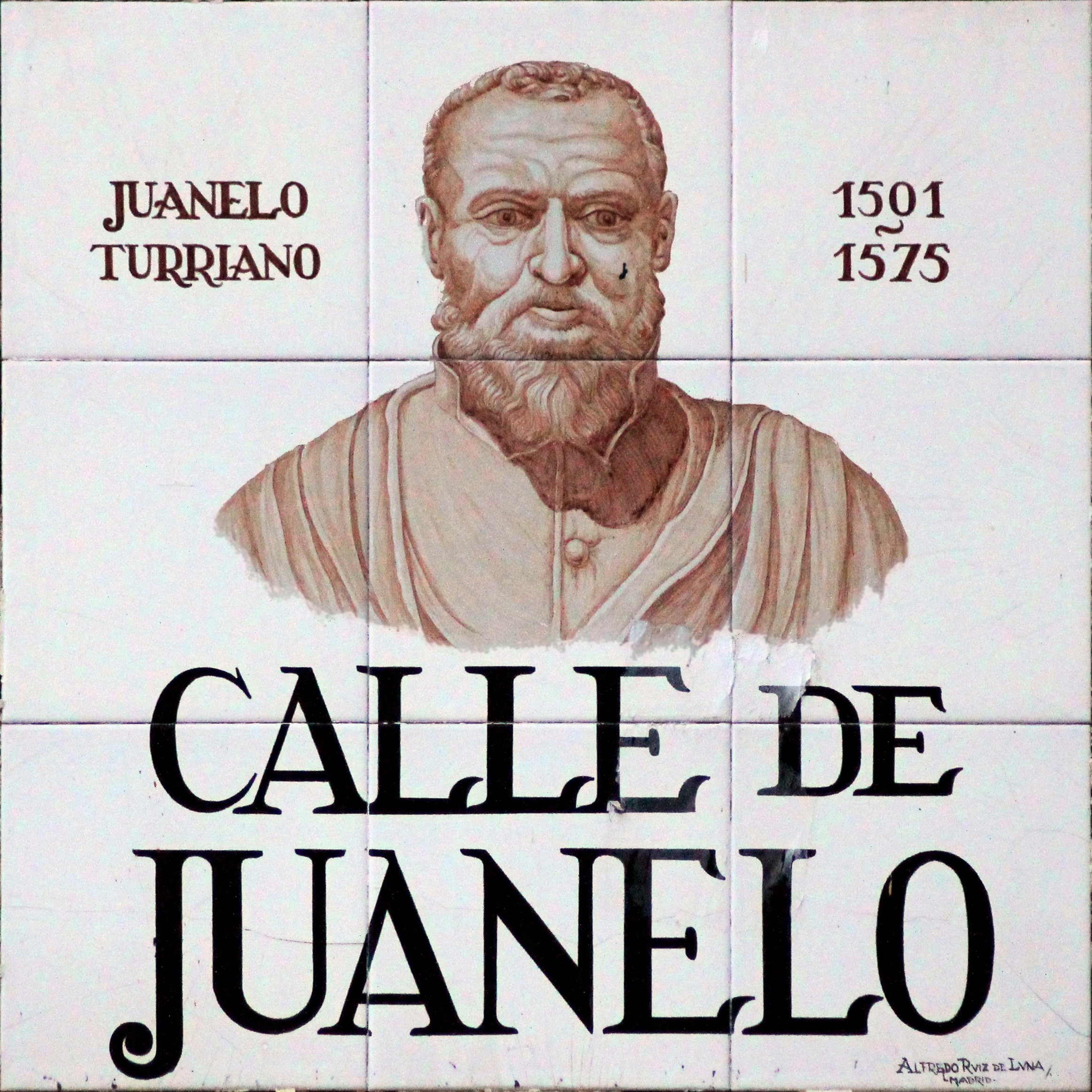 Sign of Calle de Juanelo (street) in Madrid (Spain).